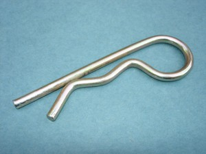 R-Clip, R-Key, R-pin, Bridge pin, Spring cotter pin or Hairpin cotter pin.